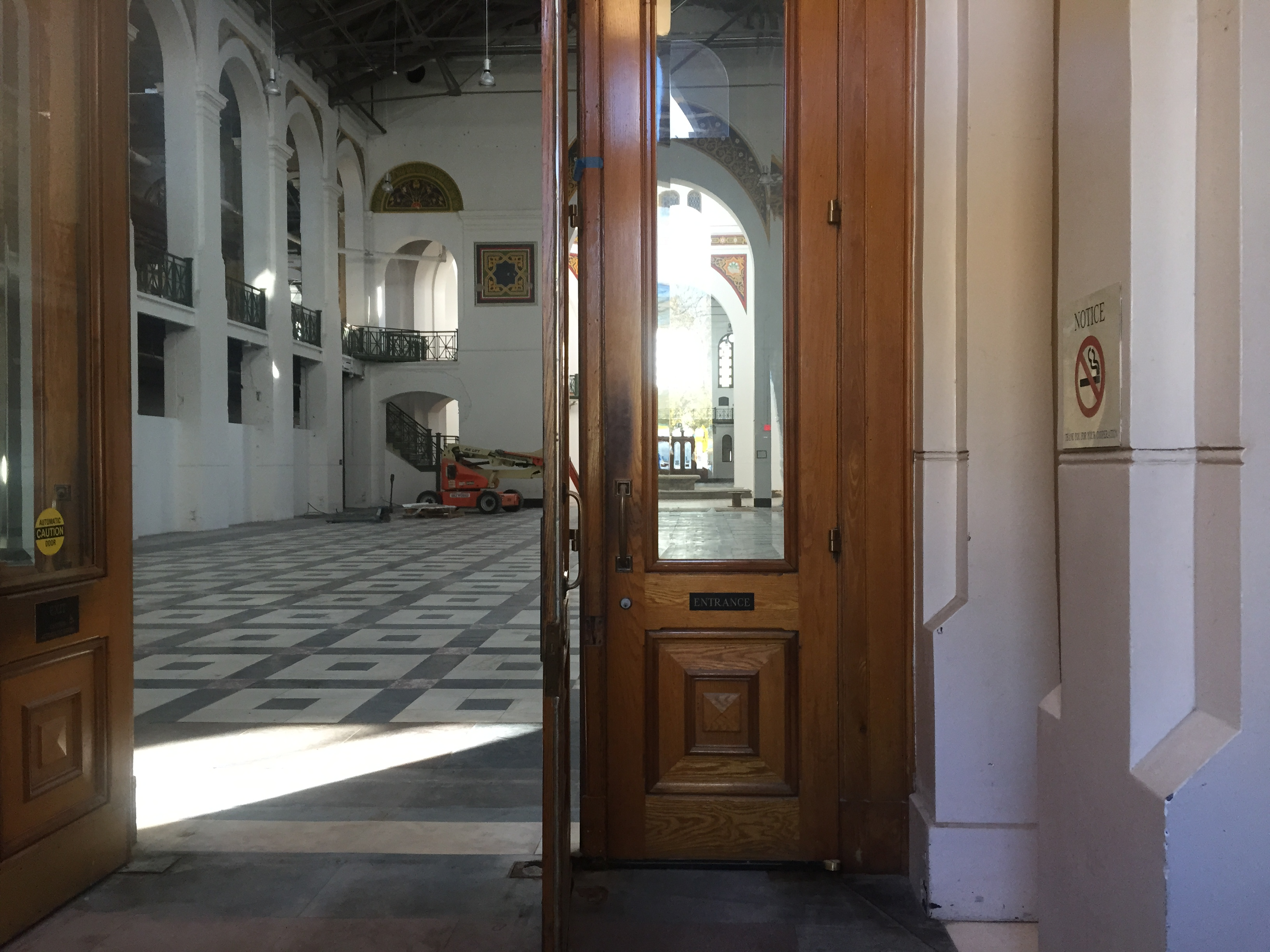 Interior of the Smithsonian Arts and Industries Building in 2015, photographed through an exterior window